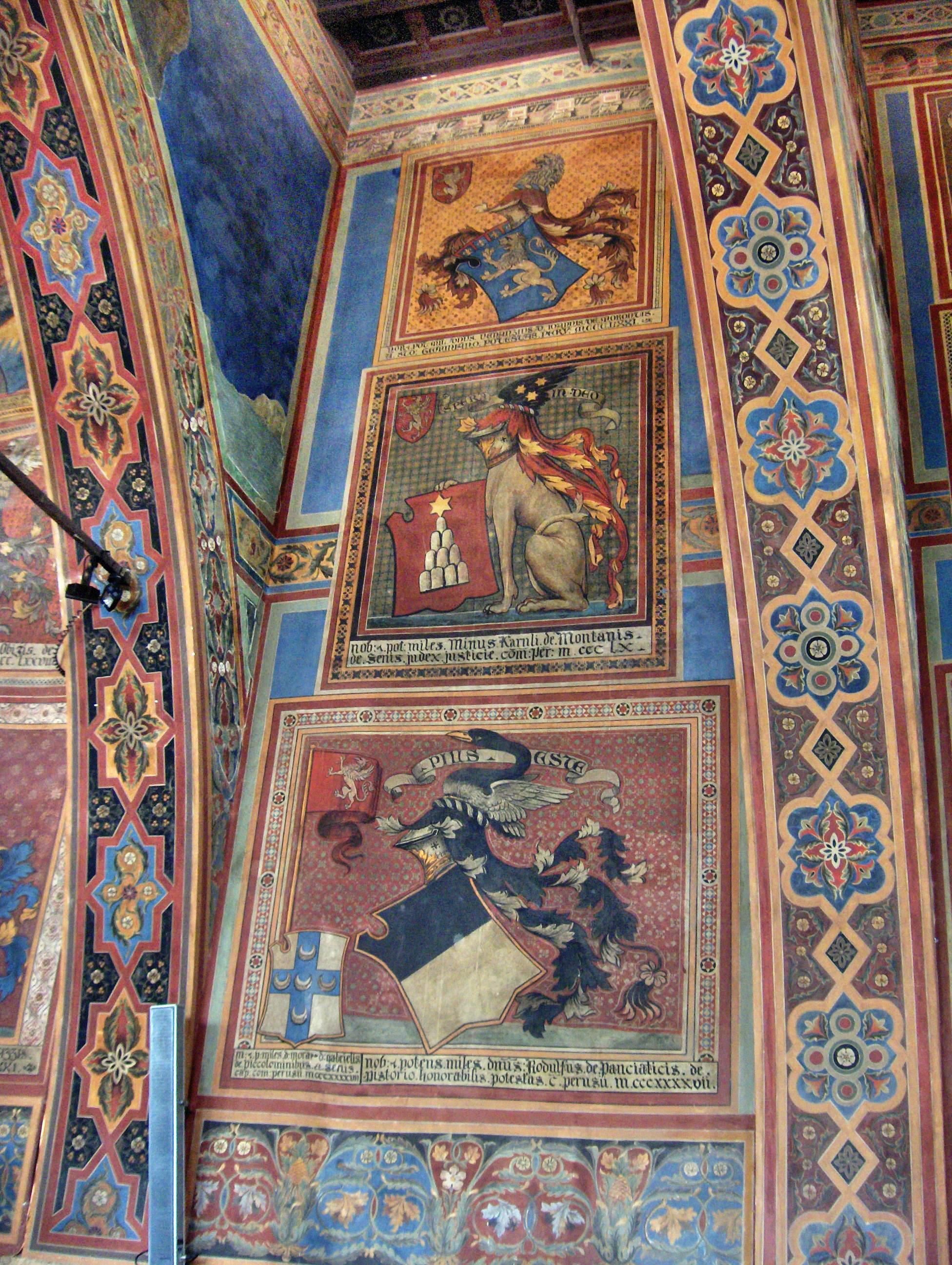 Sala dei Notari, paintings by Pietro Cavallini (late 13th century), Palazzo dei Priori, Perugia, Italy